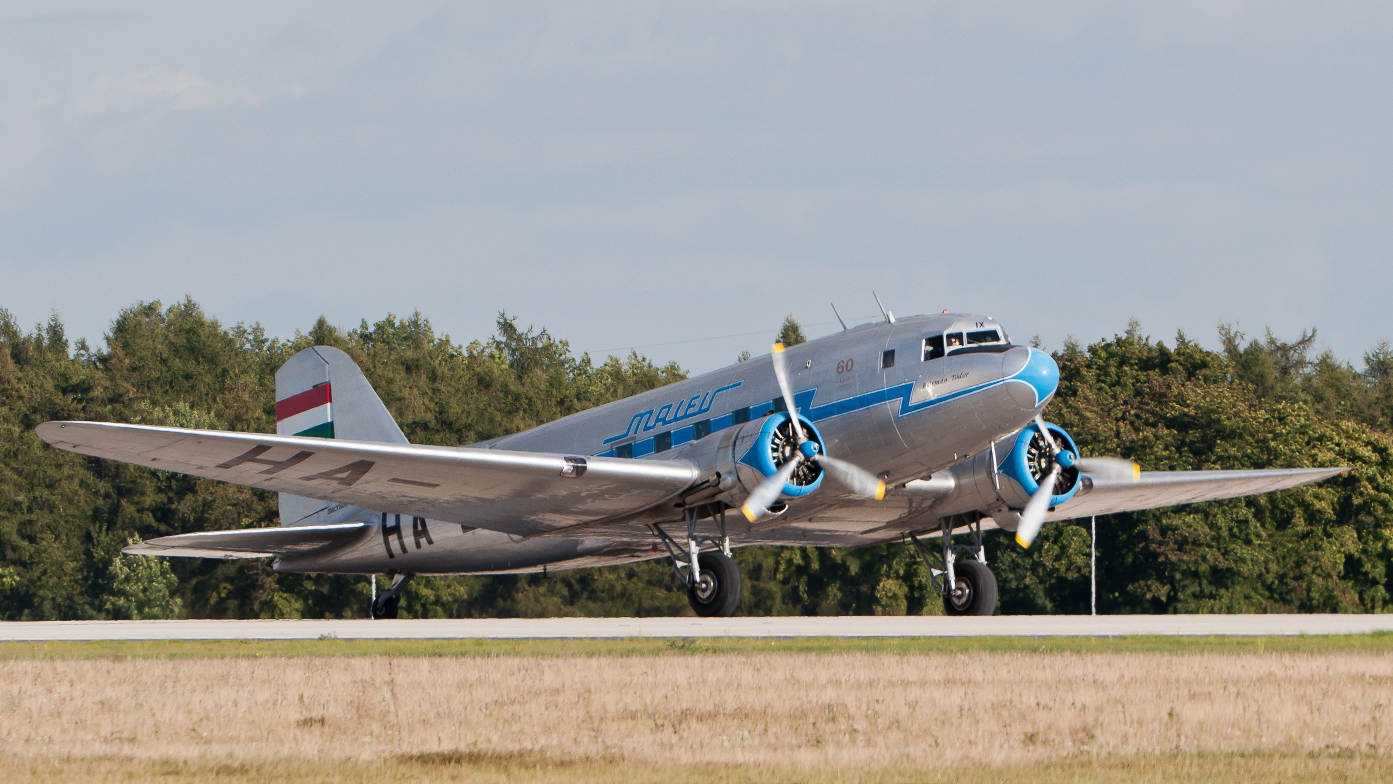 Malev - Hungarian Airlines (Gold Timer Foundation) Lisunov Li-2T (reg. HA-LIX, c/n 18433209) at ILA Berlin Air Show 2012.